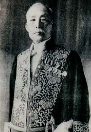 Park Jung-yang, Korean politician, 1941